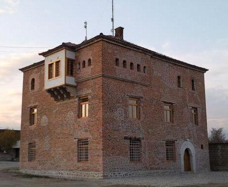 Kulla